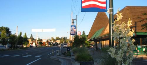 Downtown Sandy, looking east along Proctor Boulevard/U.S. Route 26. Taken 3 July 2003. Copyright assigned to Wikipedia by photographer.